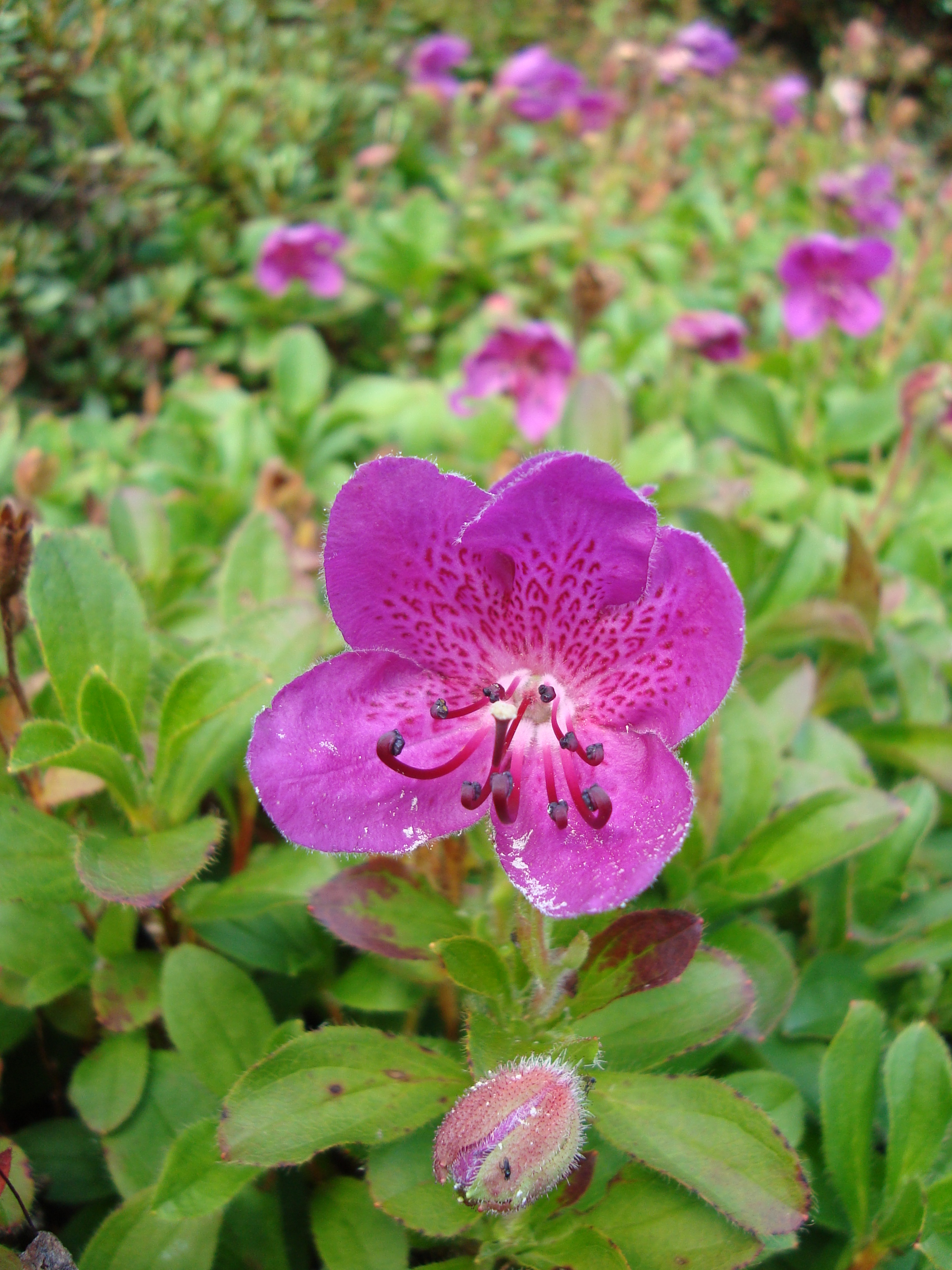 Therorhodion camtschaticum var. camtschaticum